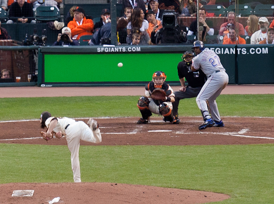 Tim Lincecum pitching to Vladimir Guerrero